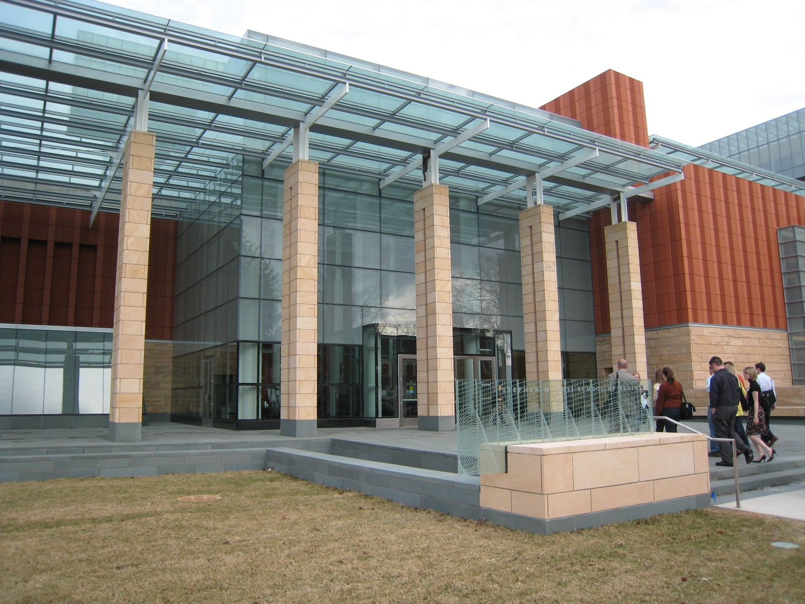 Picture of the Entrance of the building of the Ross School of Business